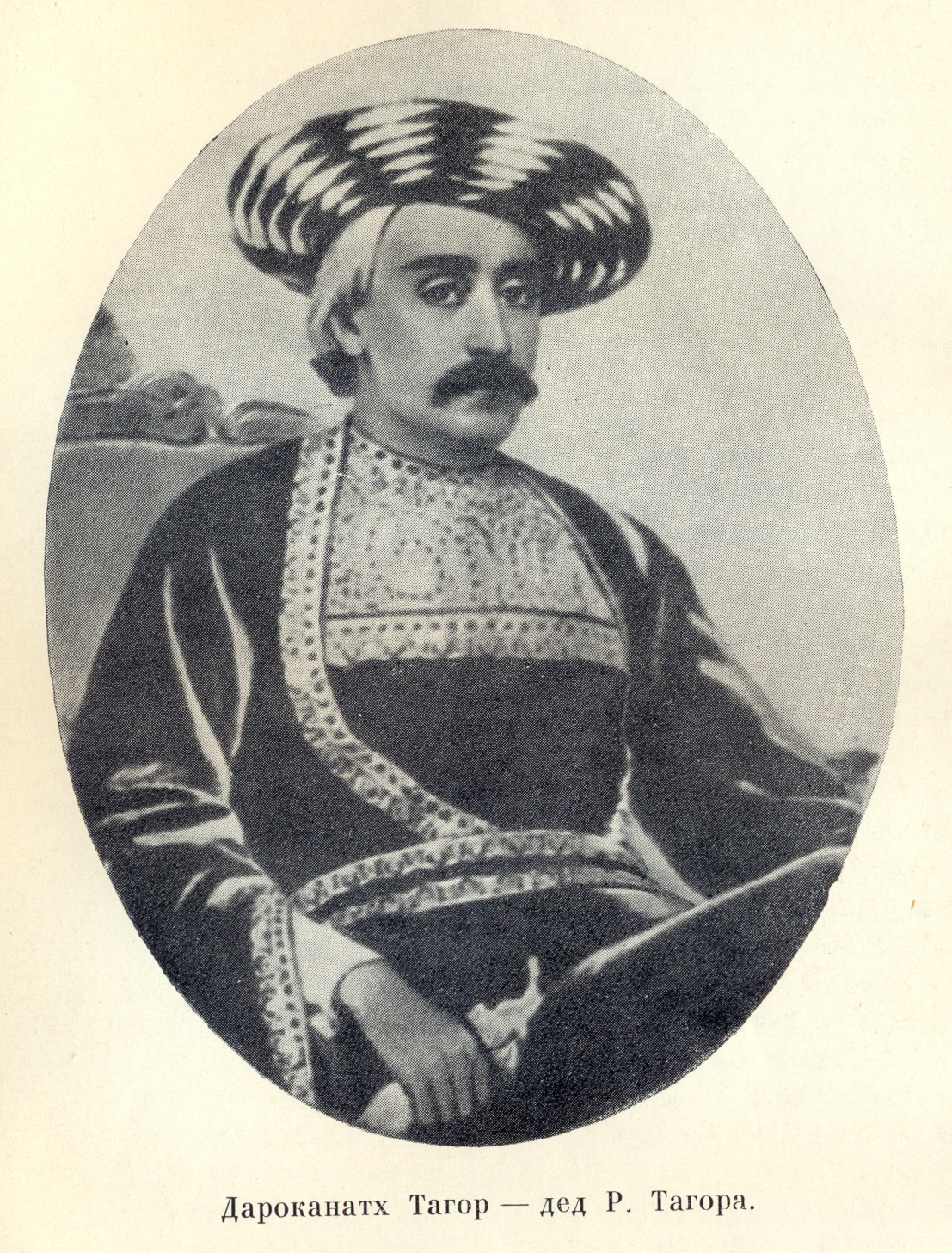 Grandfather of Rabindranath Tagore: Dwarkanath Tagore; দ্বারকানাথ ঠাকুর (Bangla, Darokanath Ţhakur)